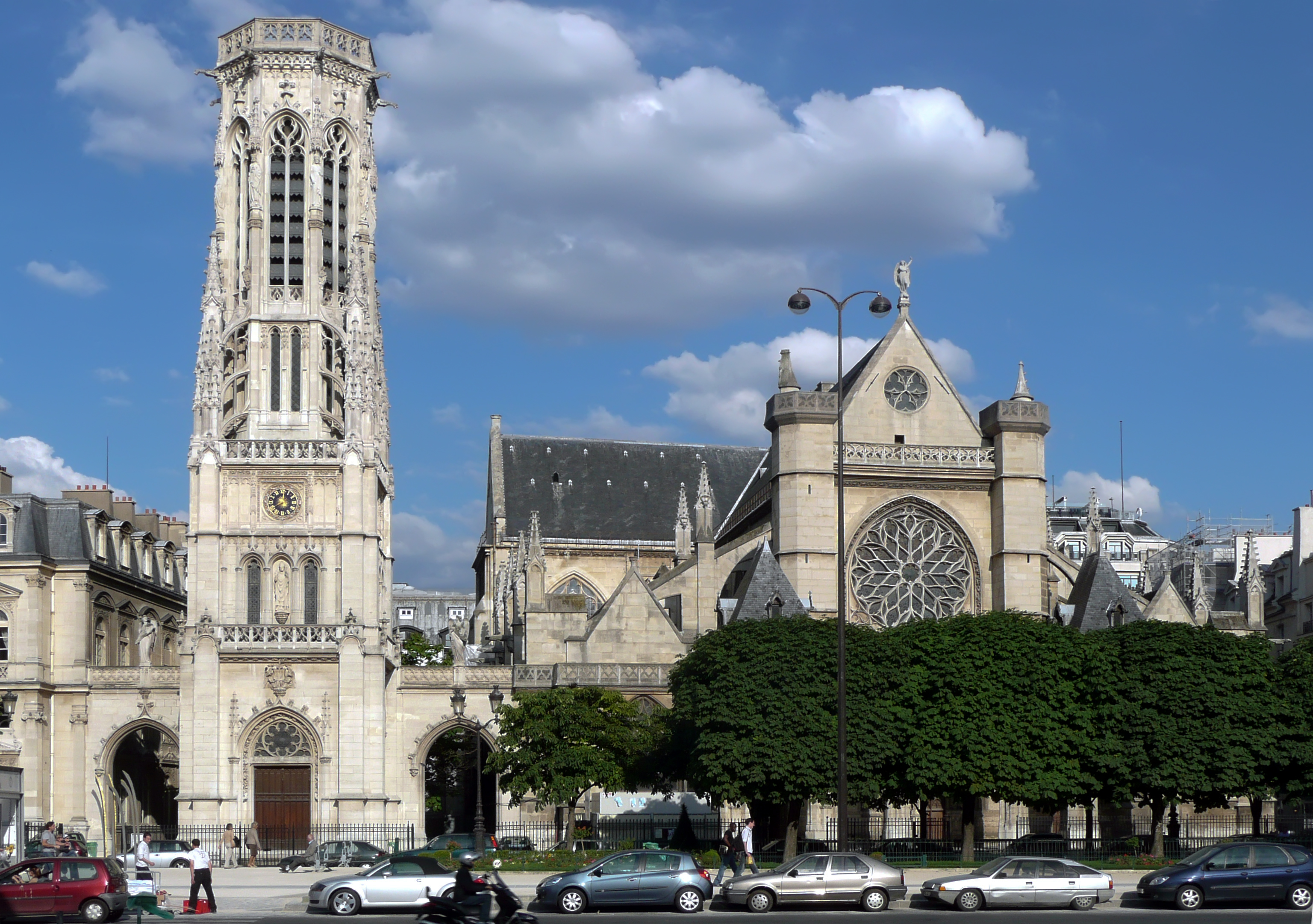 Church of Saint-Germain l'Auxerrois Paris first district, France